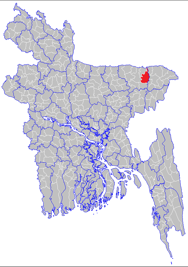 Location of Chhatak in Bangladesh